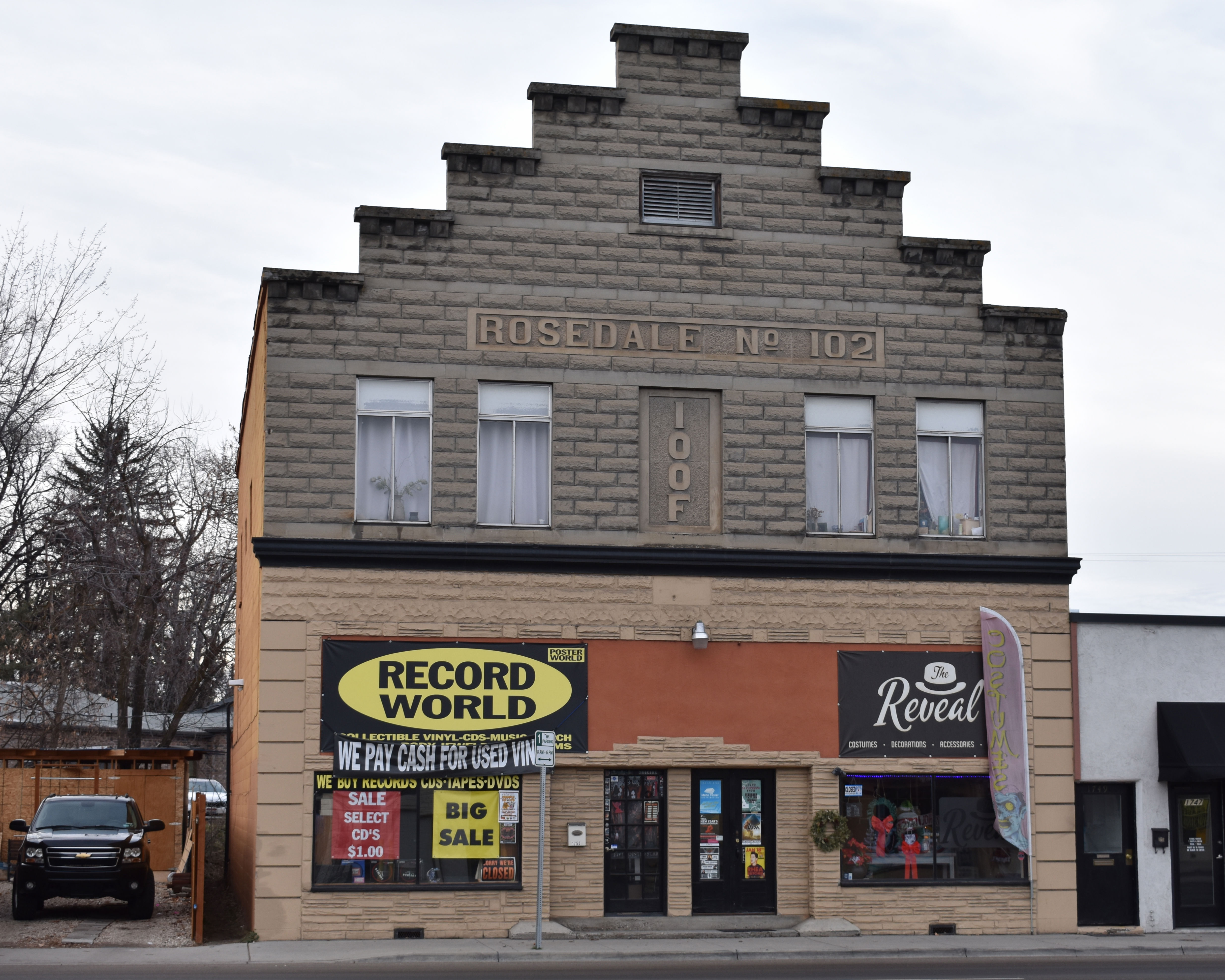 Rosedale Odd Fellows Temple (1907) in Boise, Idaho, was designed by Tourtellotte & Co. and is listed on the National Register of Historic Places.